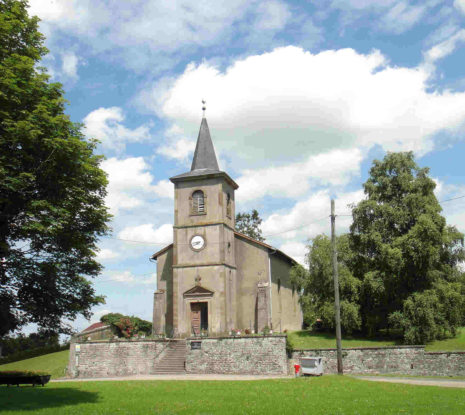 Church of Marimont-lès-Bénestroff, Lorraine (France)